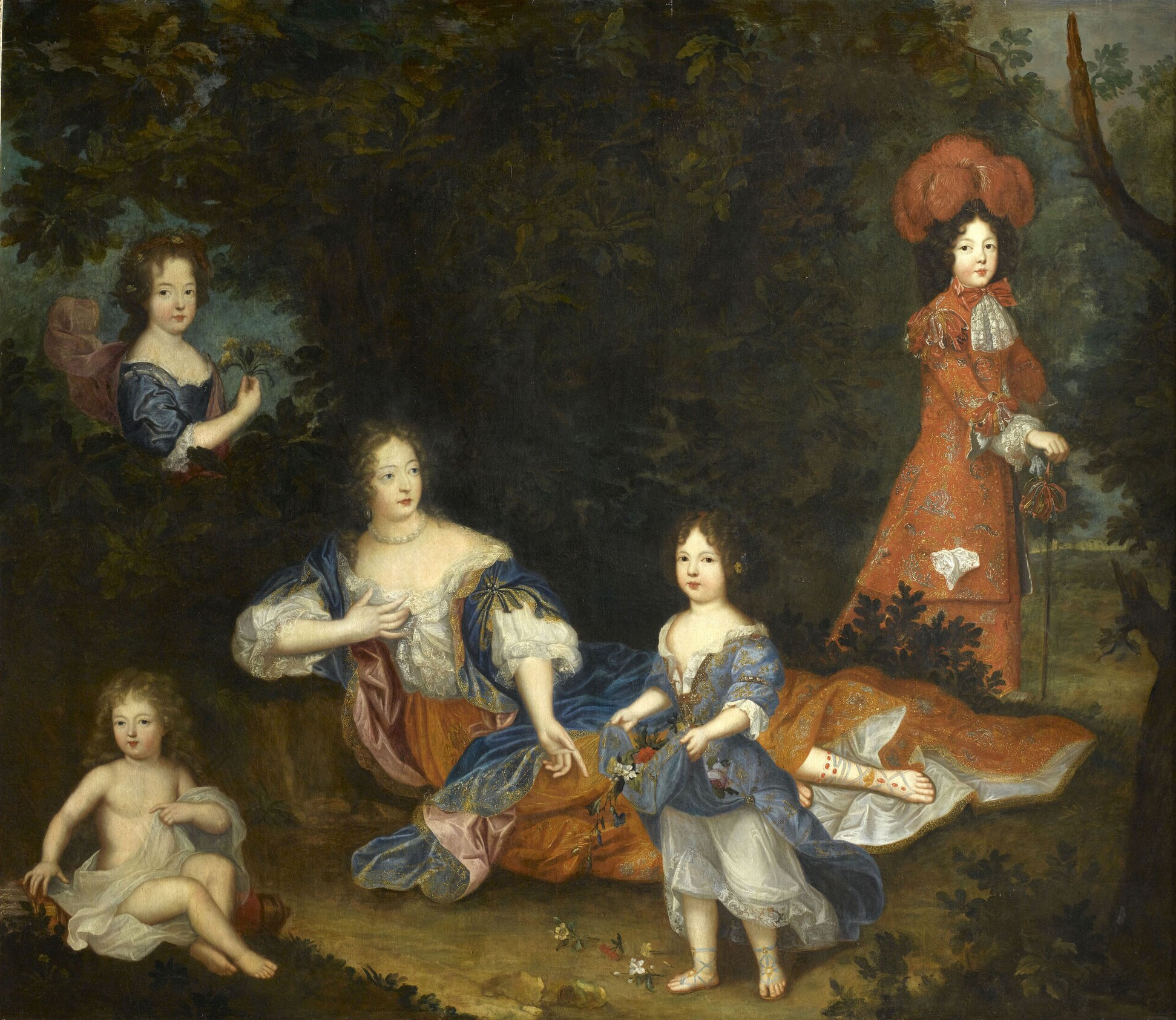 Françoise-Athénaïs de Rochechouart, Marquise of Montespan, mistress of King Louise XIV., with four of her children: Louis Auguste, Duke of Maine (1670-1736), Louis César, Count of Vexin (1672-1683) Louise Françoise de Bourbon (1673-1743) and Louise Marie Anne de Bourbon (1676-1681).